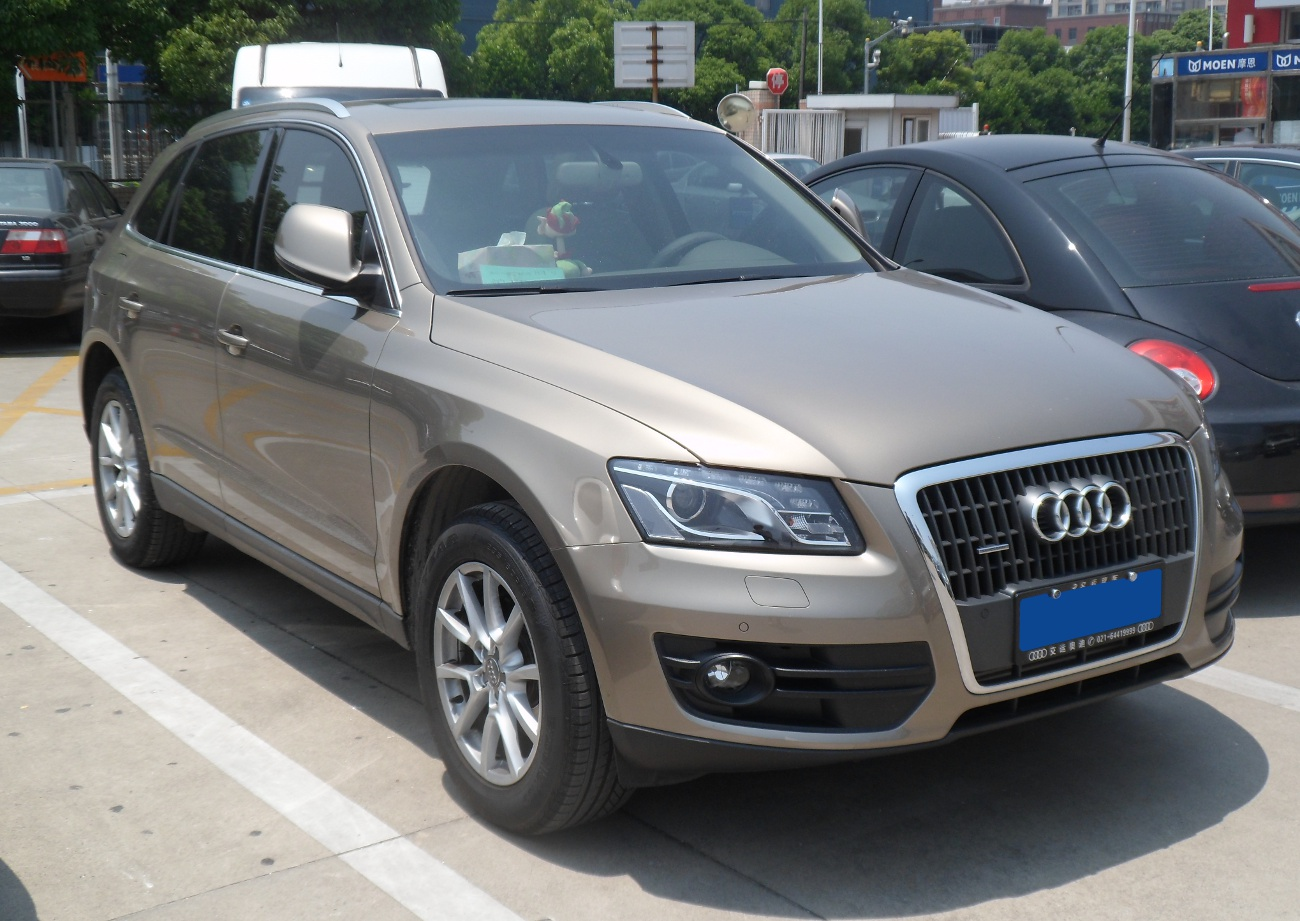 Audi Q5 8R photographed in Shanghai, China.